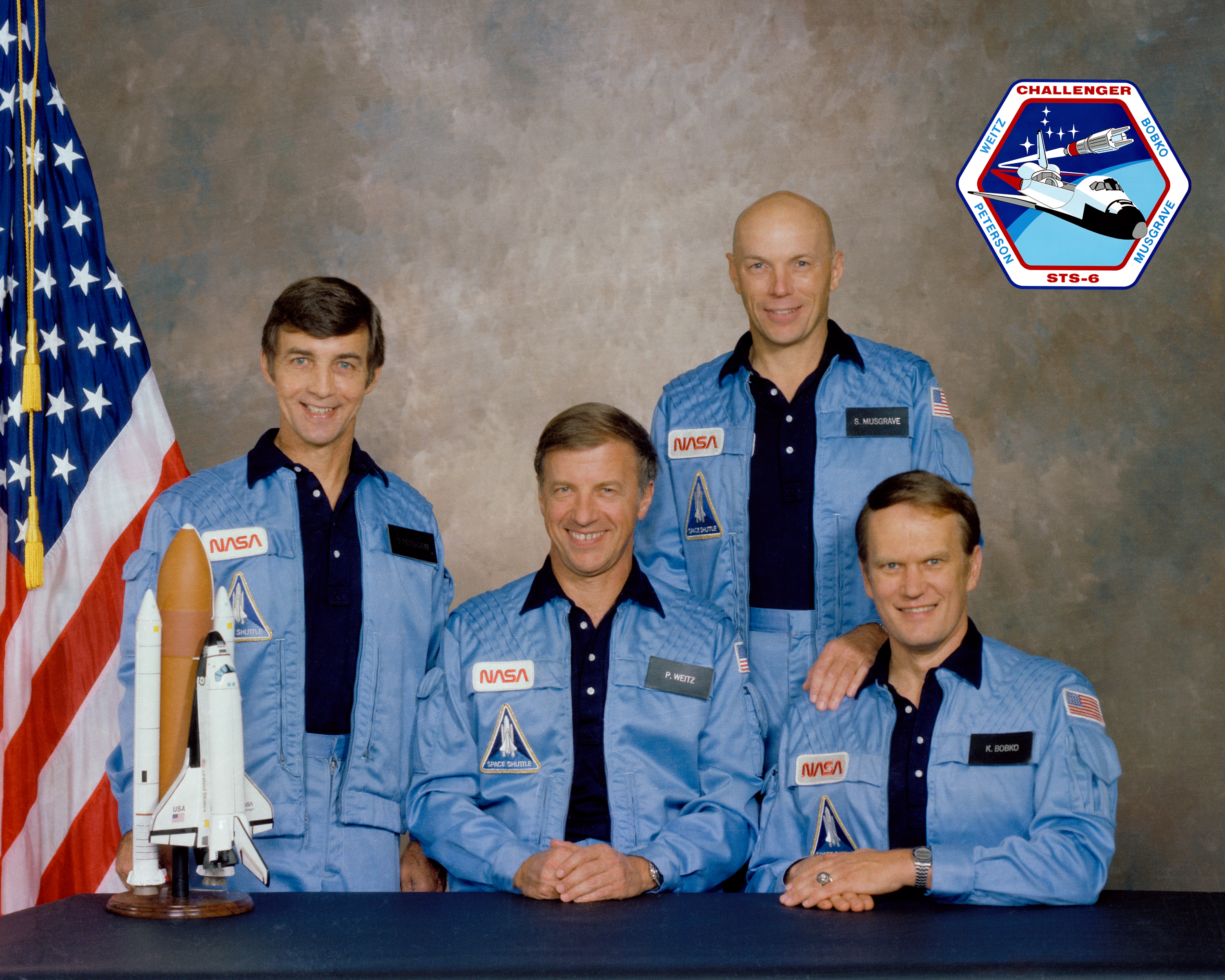 These four astronauts represent the first crewmembers to man the space shuttle Challenger when it launches from Launch Pad 39A to begin STS-6 in early 1983. Seated are Paul J. Weitz (left), crew commander, and Karol J. Bobko, pilot. Standing are Donald H. Peterson (left), and Story Musgrave, both mission specalists. They are pictured with a model of the shuttle in launch configuration, the U.S. flag and their mission emblem.